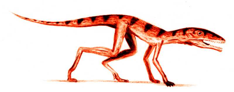 Scleromochlus, pencil drawing, based on skeletal by Jaime Headden and skull by Benton